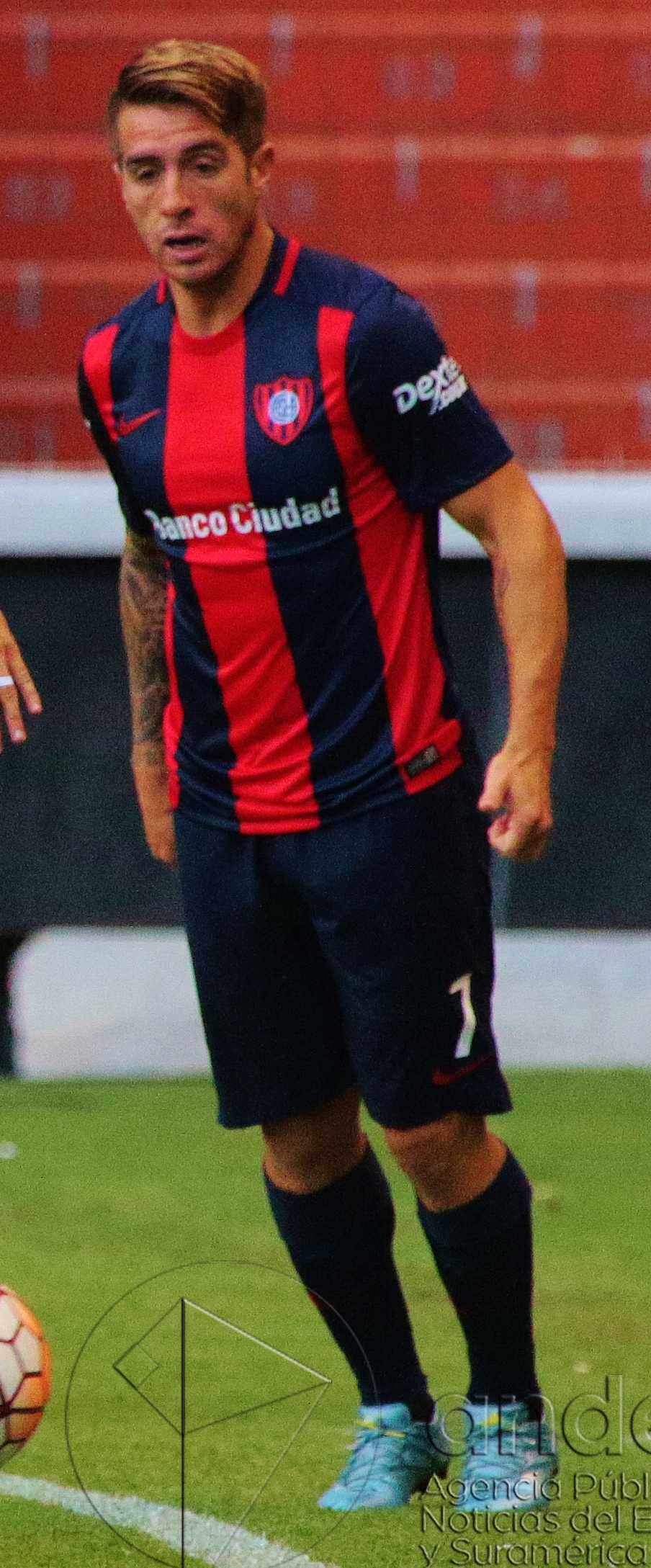 Julio Buffarini